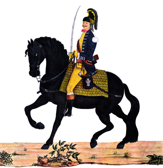 Cavalryman of the dragon regiment. Brazil 18th century.